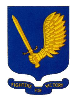 Emblem of the 357th Fighter Group (USAAF) World War II Source: United States Air Force